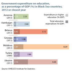 Government expenditure on education, as a percentage of GDP (%) in Black Sea countries, 2012 or closest year